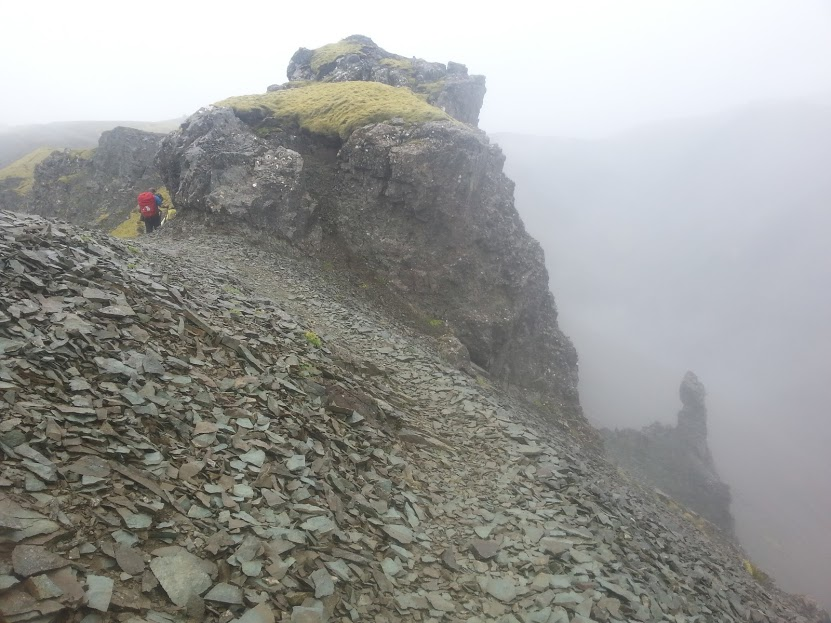 Illikambur